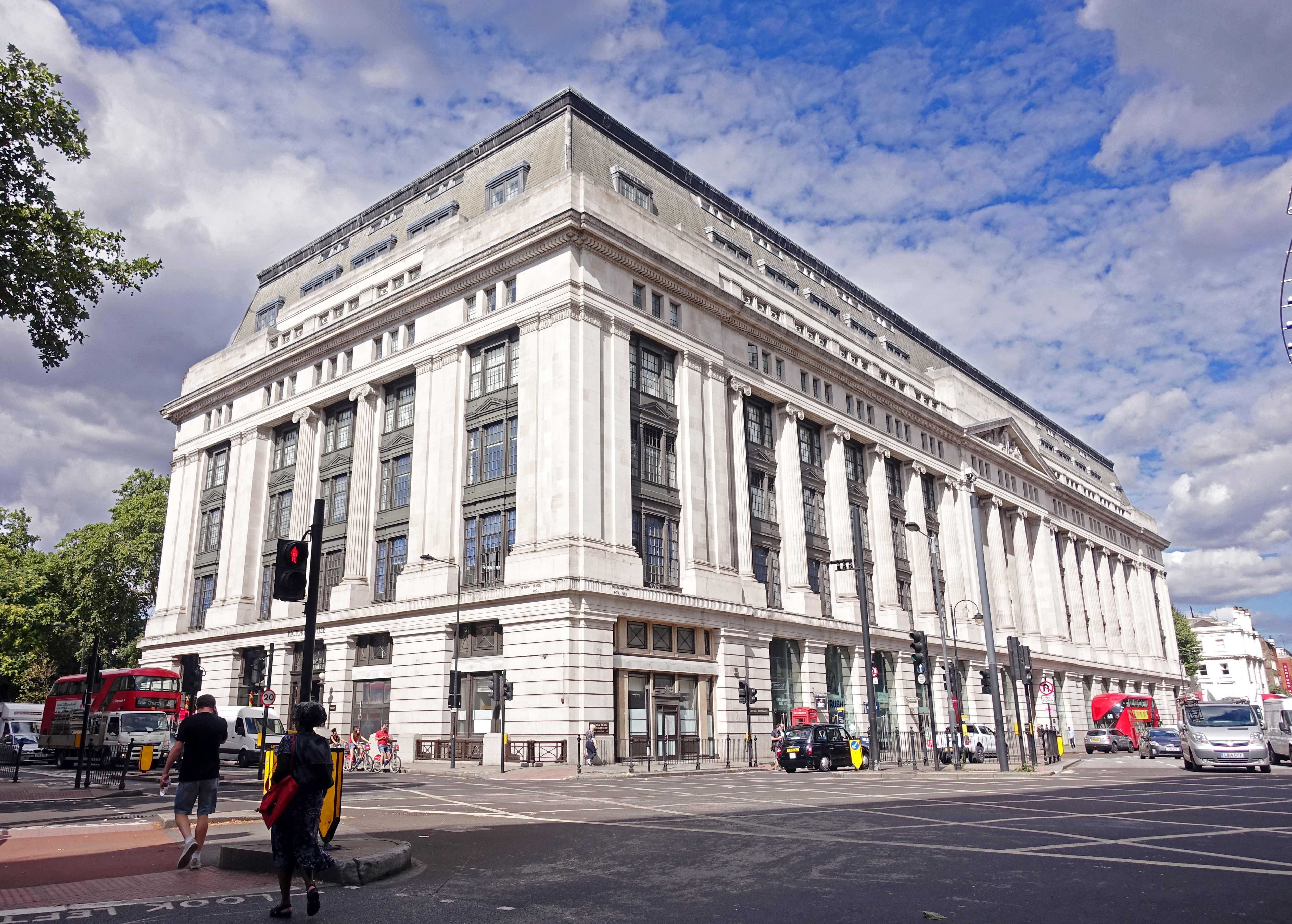 Victoria House, London. Wikidata has entry Q18667468 with data related to this item.